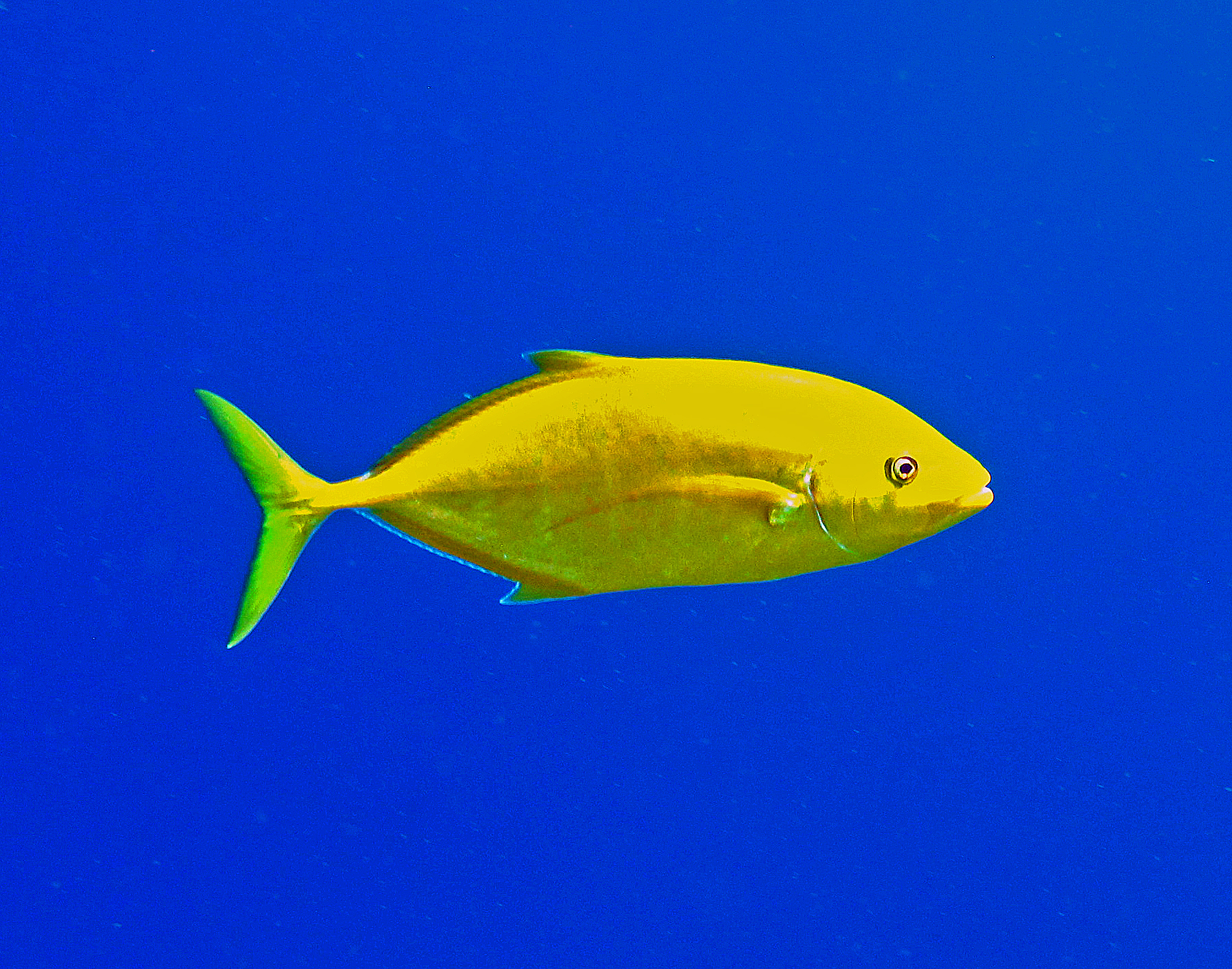 Carangoides bajad - Sharm El Sheik, Egypt